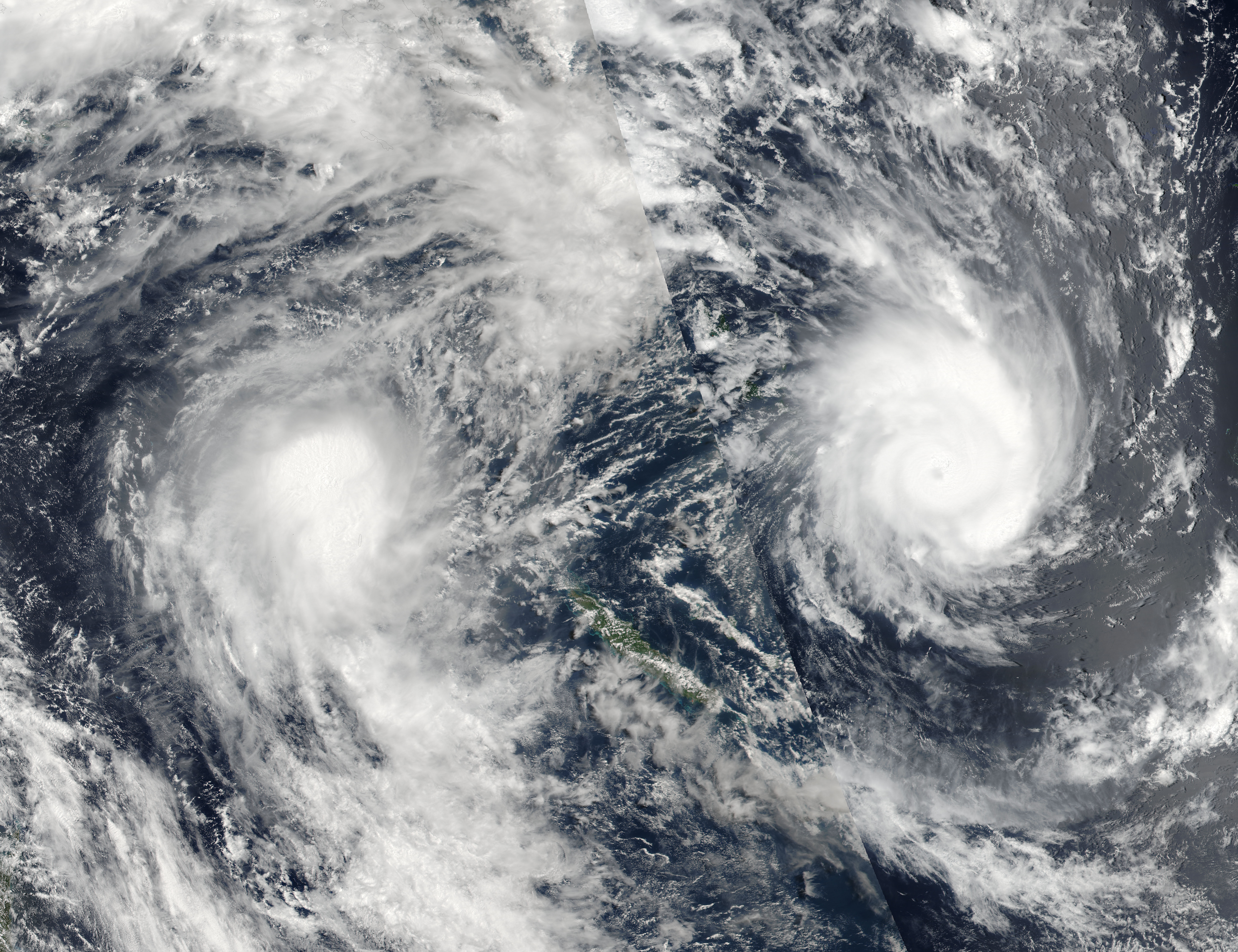 Tropical Cyclones Winston (11P) and Tatiana (12P) in the South Pacific Ocean